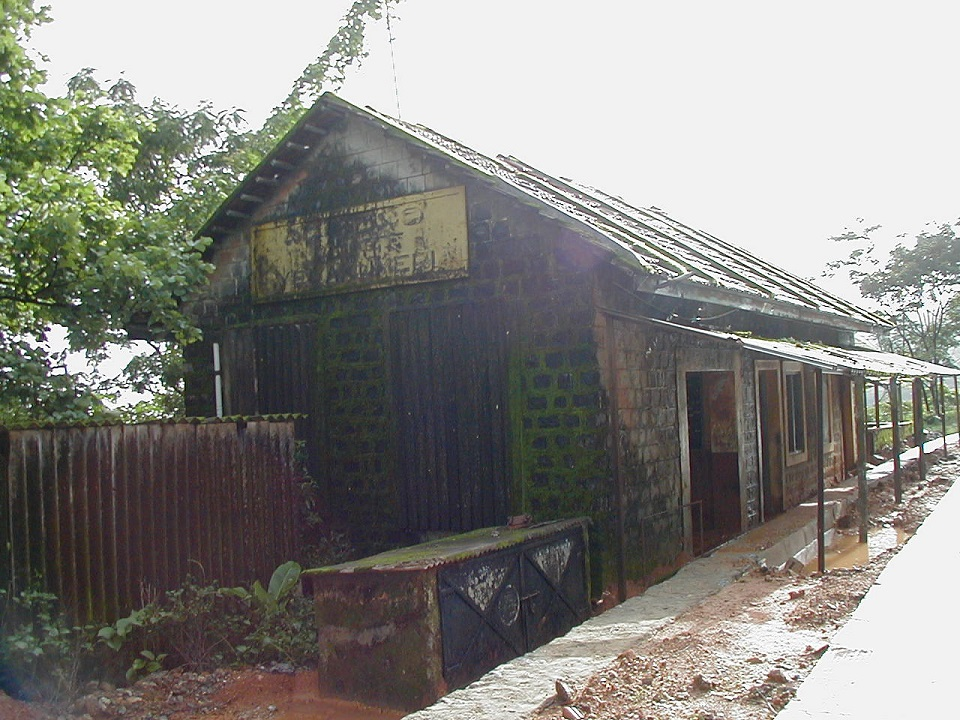 Abandoned Yedakumeri Train Station (2003)